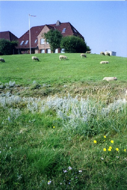 Nordstrandischmoor Hallig, North Frisian Islands